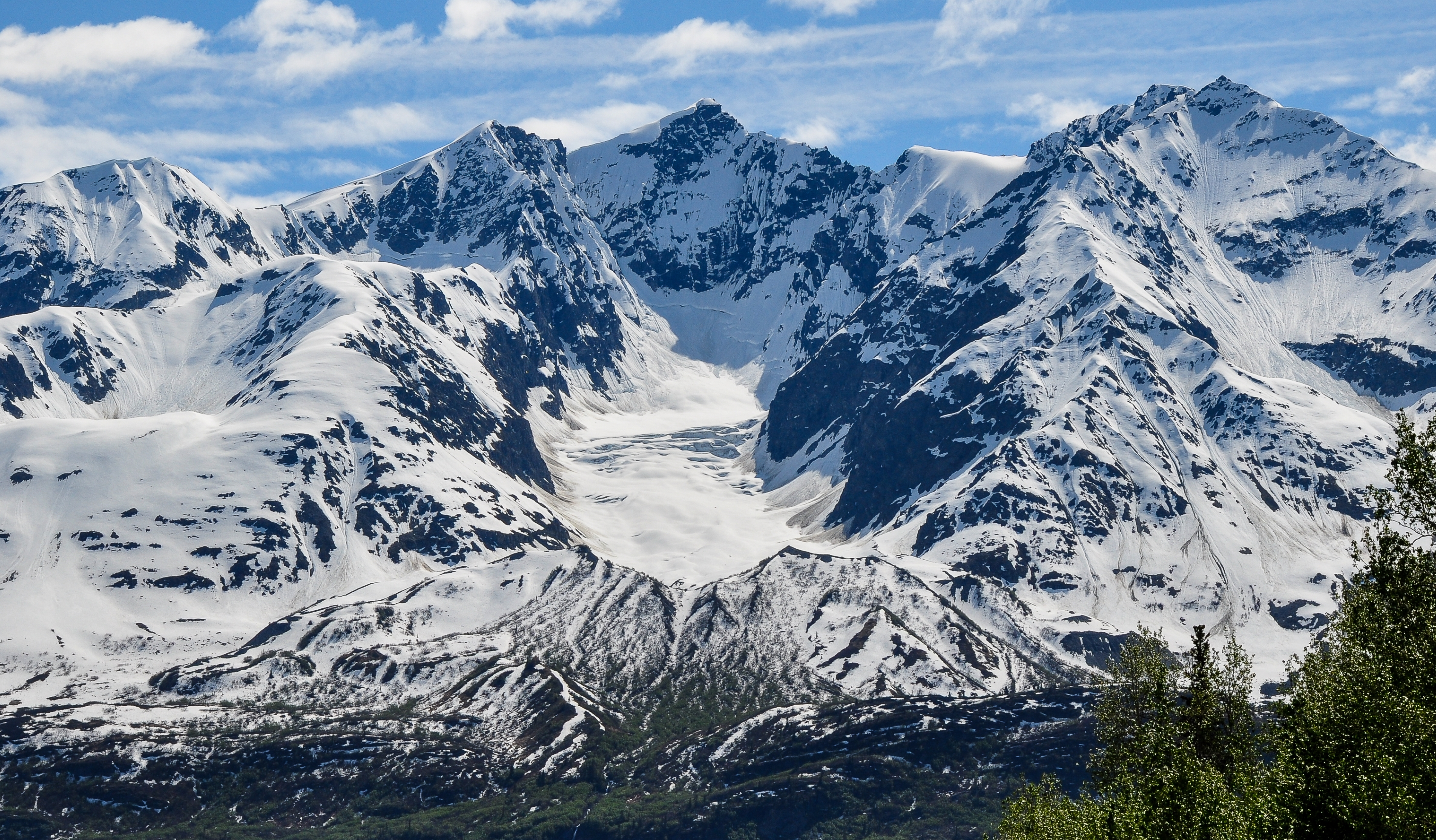 Mount Billy Mitchell in the Chugach Mountains seen from Richardson Highway.